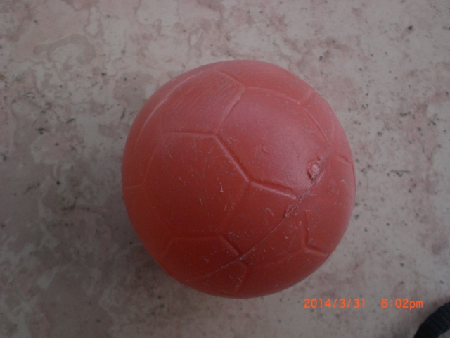 A plastic ball used in Elle.